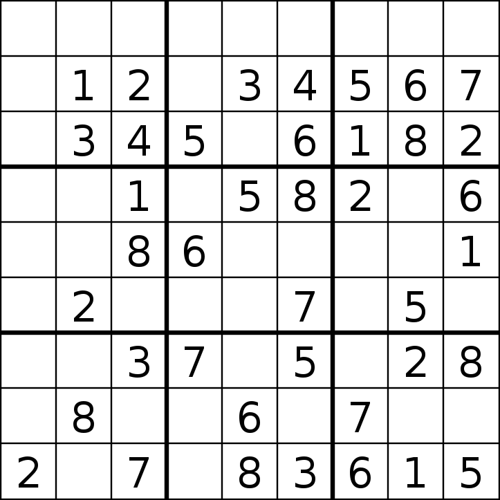 The first discovered minimal 9x9 Sudoku puzzle with 40 givens. Original image uploaded by Dobrichev (13 April 2017). This image is the same except the white border is removed, so that it matches the style of other Sudoku images.